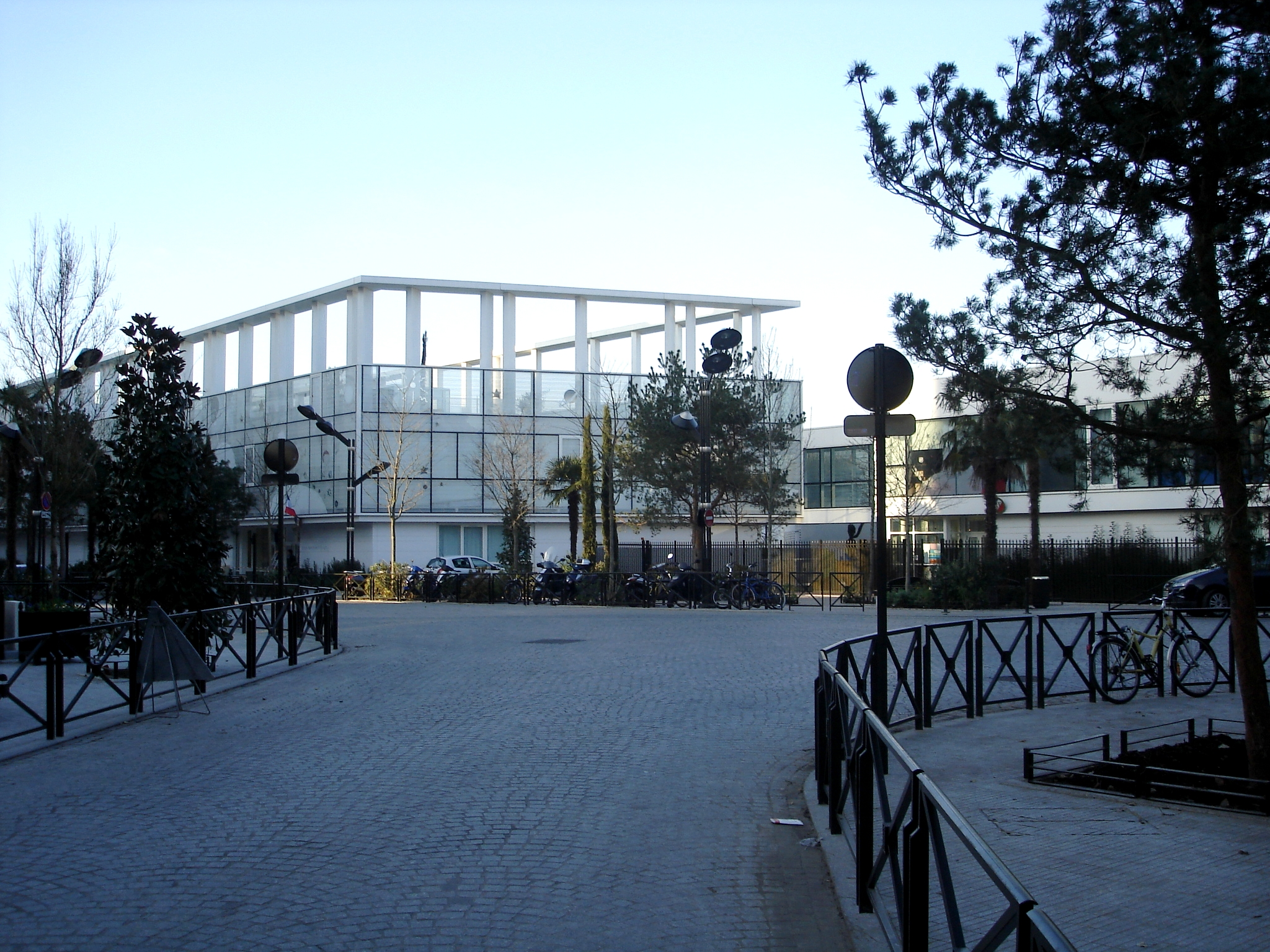 Rue Baudin / Place du 11 Novembre at Levallois-Perrret, suburb of Paris. In the back the nursery school saint-Exupery.